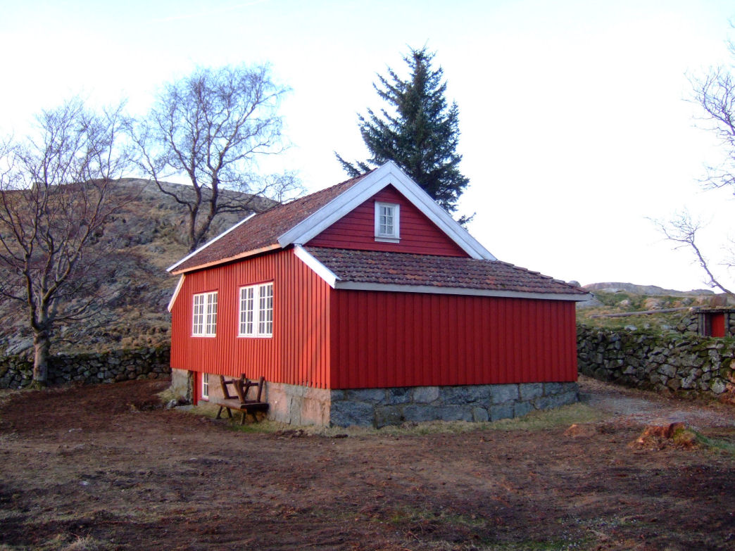 Knudaheio, Arne Garborg. Museum, Time, Rogaland. Summerhouse and place of writing.